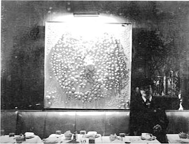 Don Rubbo with his sculpture bought by Mickey Rusken and exhibited at Max's Kansas City restaurant and nightclub.